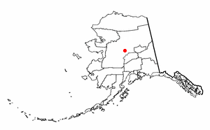 Adapted from Wikipedia's AK borough maps by Seth Ilys.